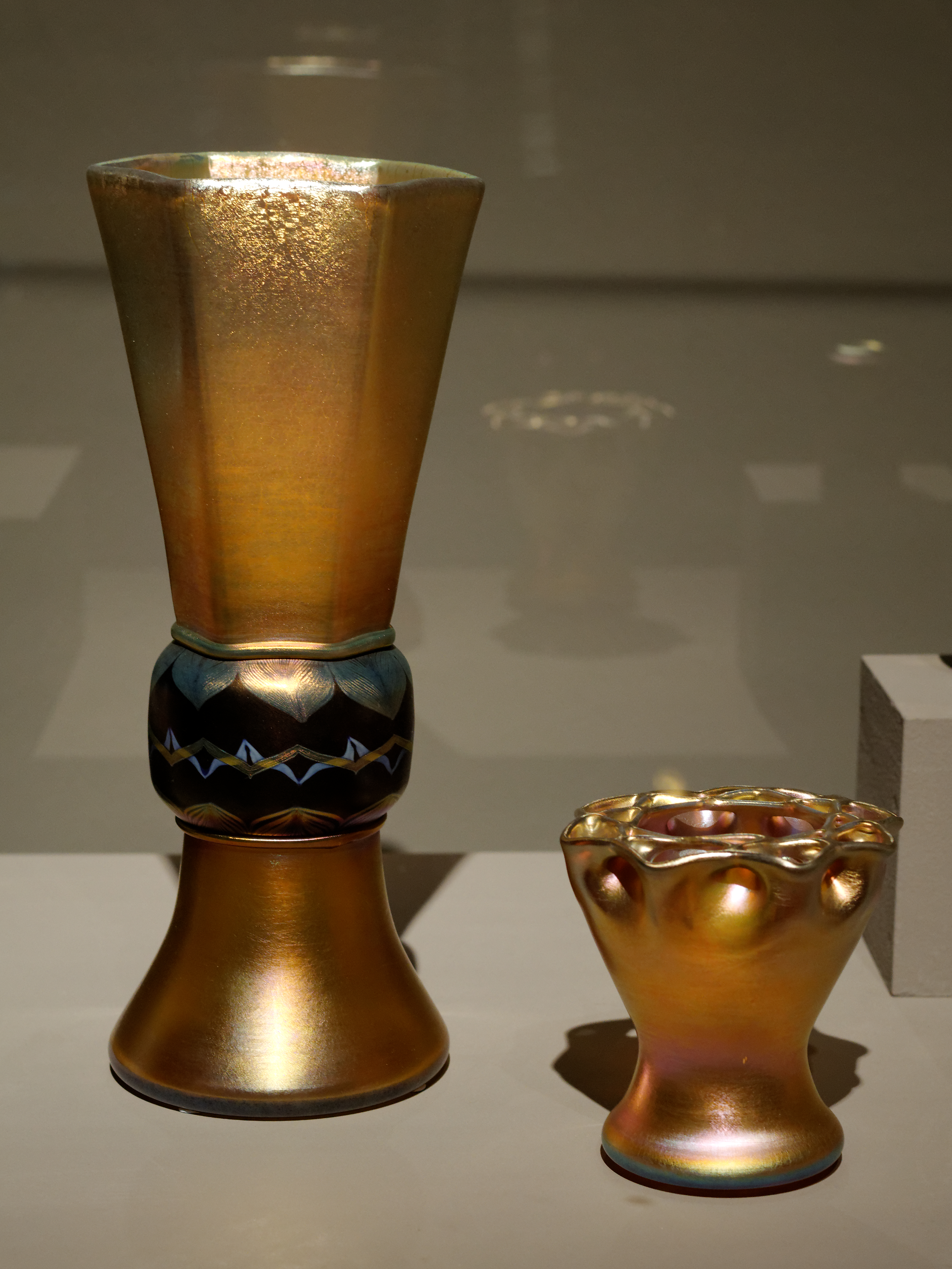 Hexagonal footed vase. Louis Comfort Tiffany, New-York 1895-1913